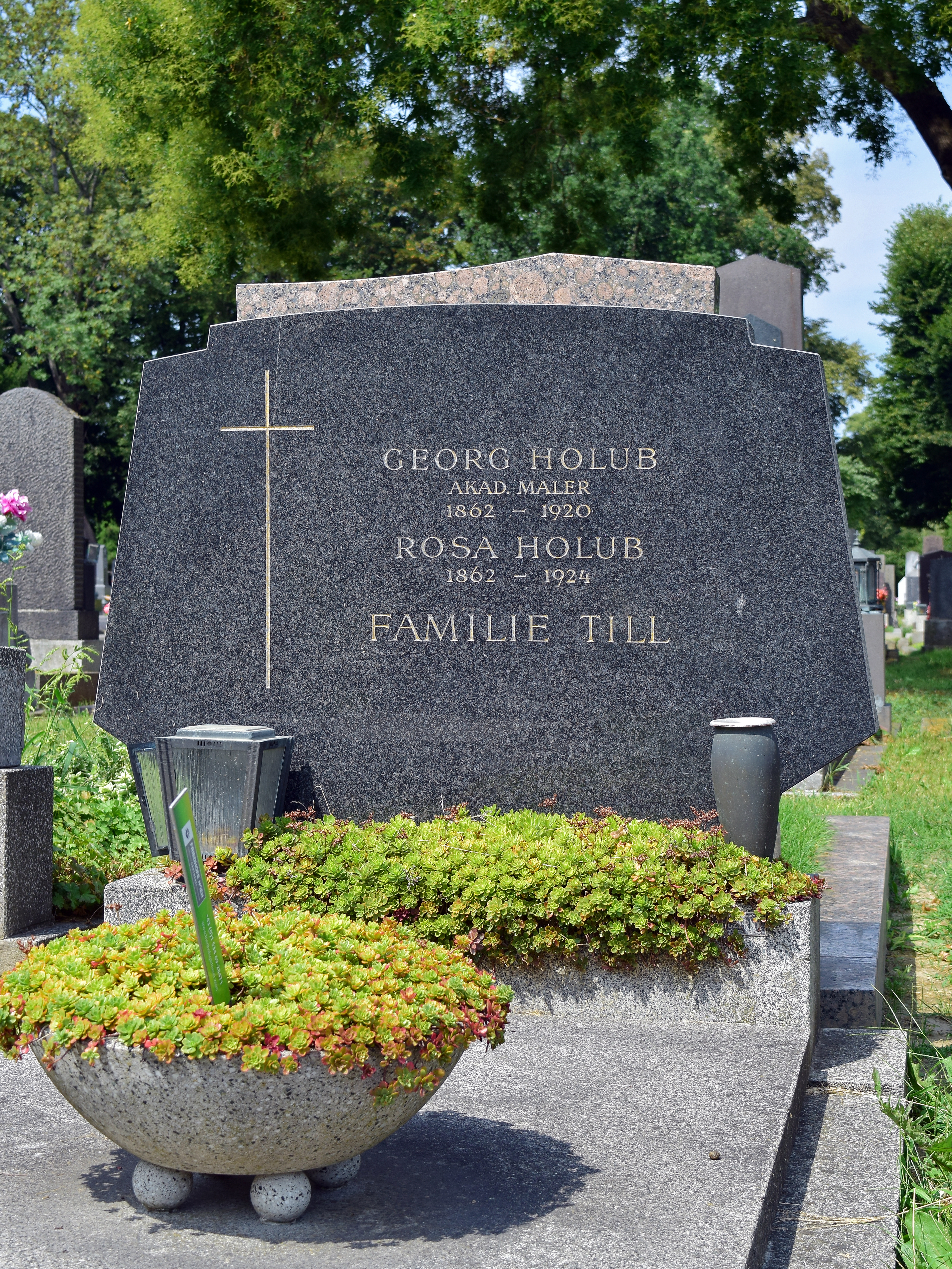 Grave of honor of the austrian painter Georg Holub at the Wiener Zentralfriedhof